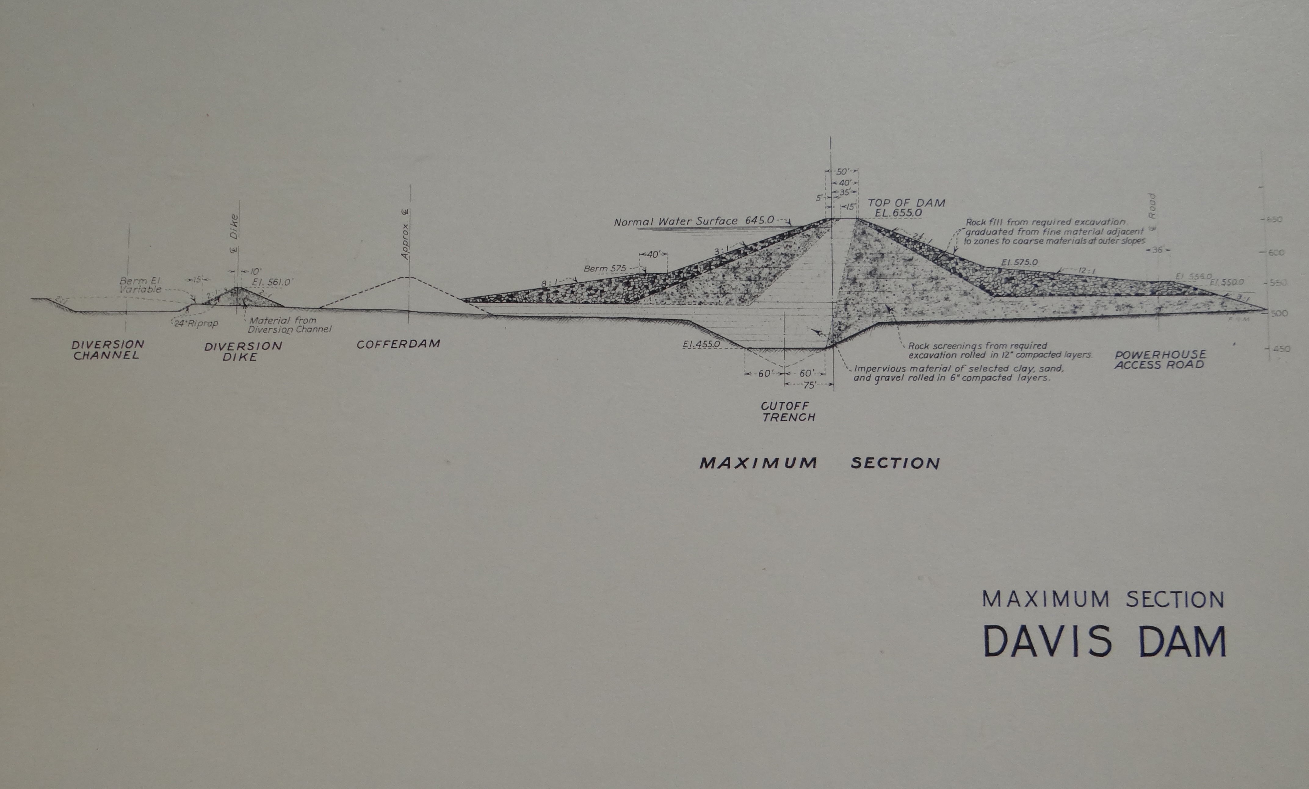 Original engineering drawings for the maximum section of the Davis Dam.